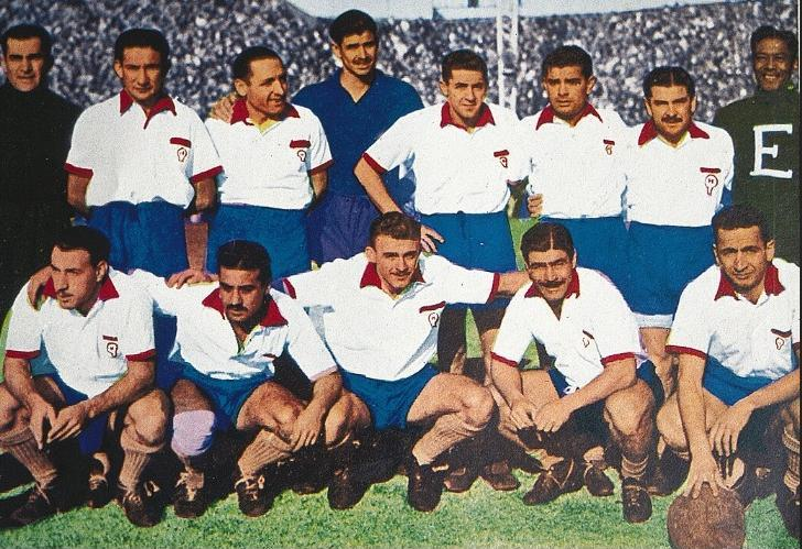 1946 Huracán squad. From left to right: Ramírez, Marinelli, Rebagliatti, Simes, Corzo and Unzué; Salvini, Méndez, Di Stéfano, Videla and Alberti.